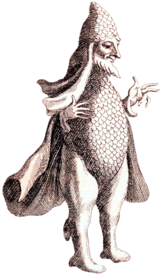 Derivate work of File:Merman.jpg which is under Public-Domain licence. A relatively benign merman complete with scales caught in the Baltic Sea in 1531 according to Johann Zahn's sources. In: "Specula physico- mathematico-historica notabilium ac mirabilium sciendorum" by Johann Zahn. published 1696 at Augsburg, Germany. Library Call Number Q155 .Z33 1696. The caption reads: "Vir marinus episcopi specie An: 1531 captus im mari Baltico." Image ID: libr0081, Treasures of the NOAA Library Collection Photographer: Archival Photograph by Mr. Sean Linehan, NOS, NGS National Oceanic and Atmospheric Adminstration (NOAA), United States of America Bild:Image:Merman.jpg